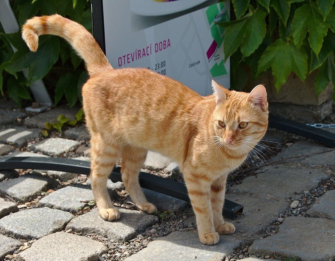 Cat, FoP-Czech Republic